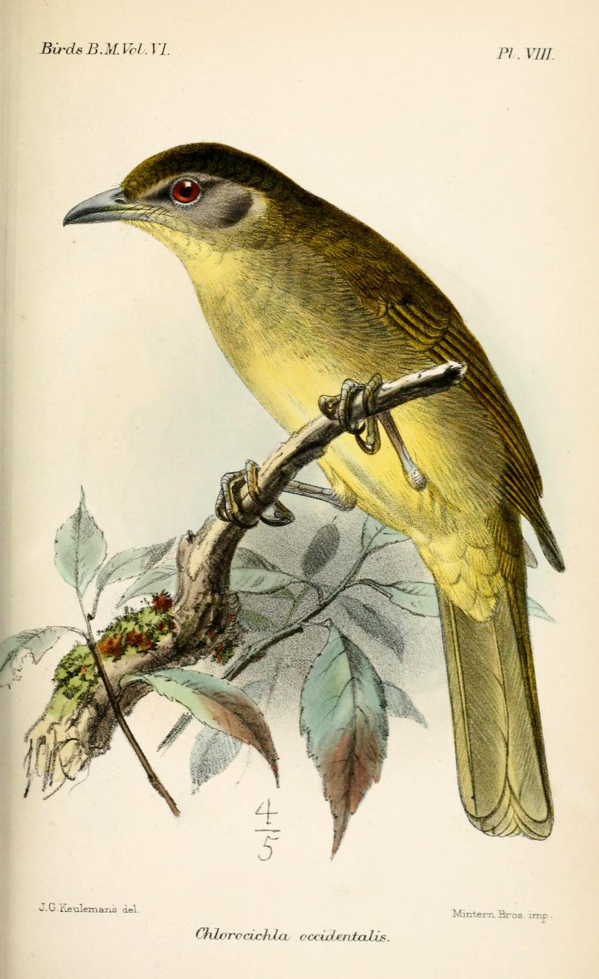 Chlorocichla occidentalis = Chlorocichla flaviventris occidentalis, Yellow-bellied Greenbul ssp.